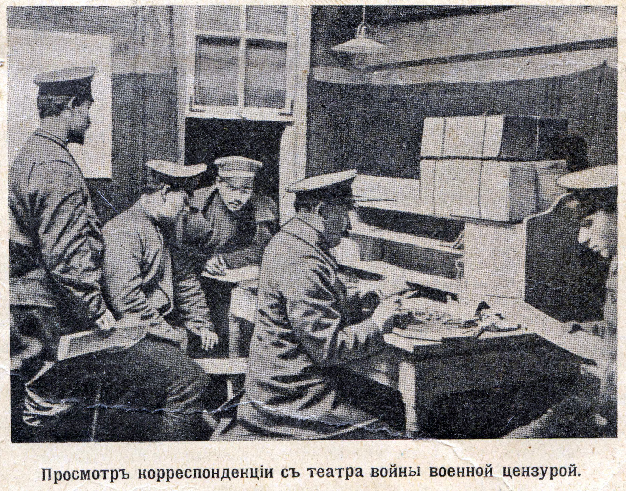 "Examination of correspondence from the theater of war by military censors." Russian Empire. Illustration from the journal "Priroda i liudi" (illustrated journal of science, art, and literature), number 30, 28 May 1915.